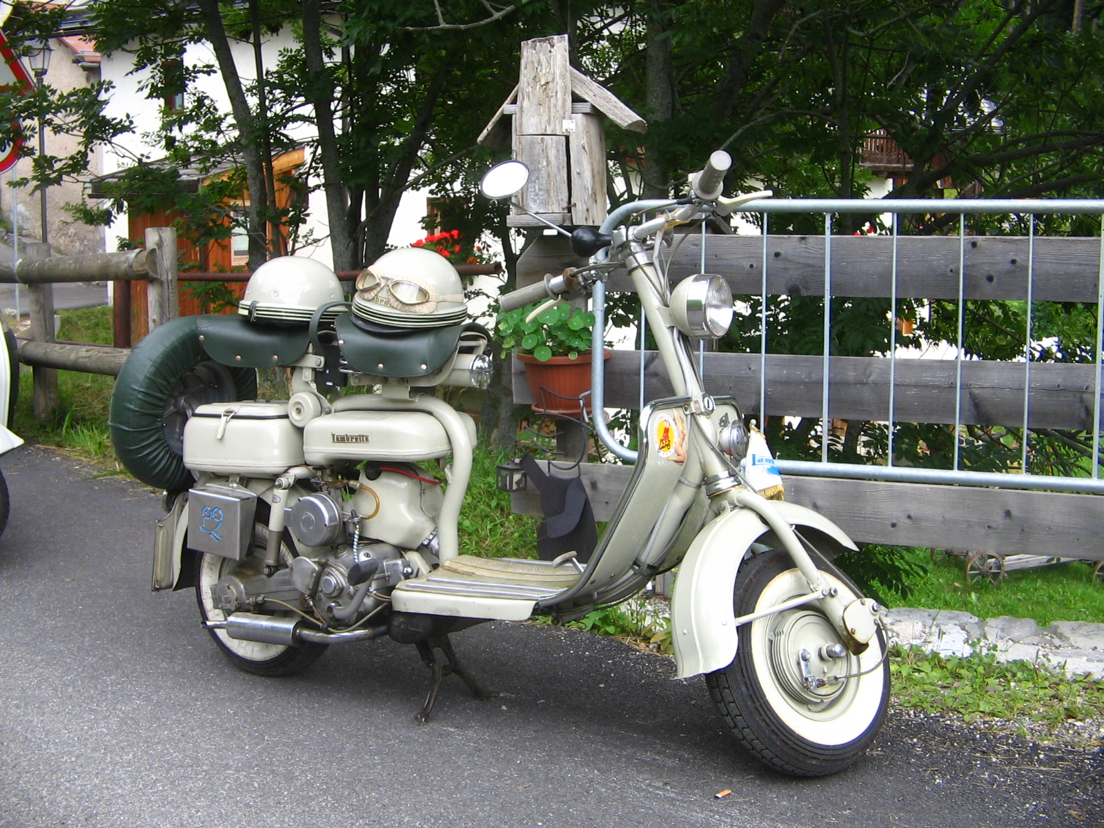 a Lambretta 'model 150 d with a pair of original helmet